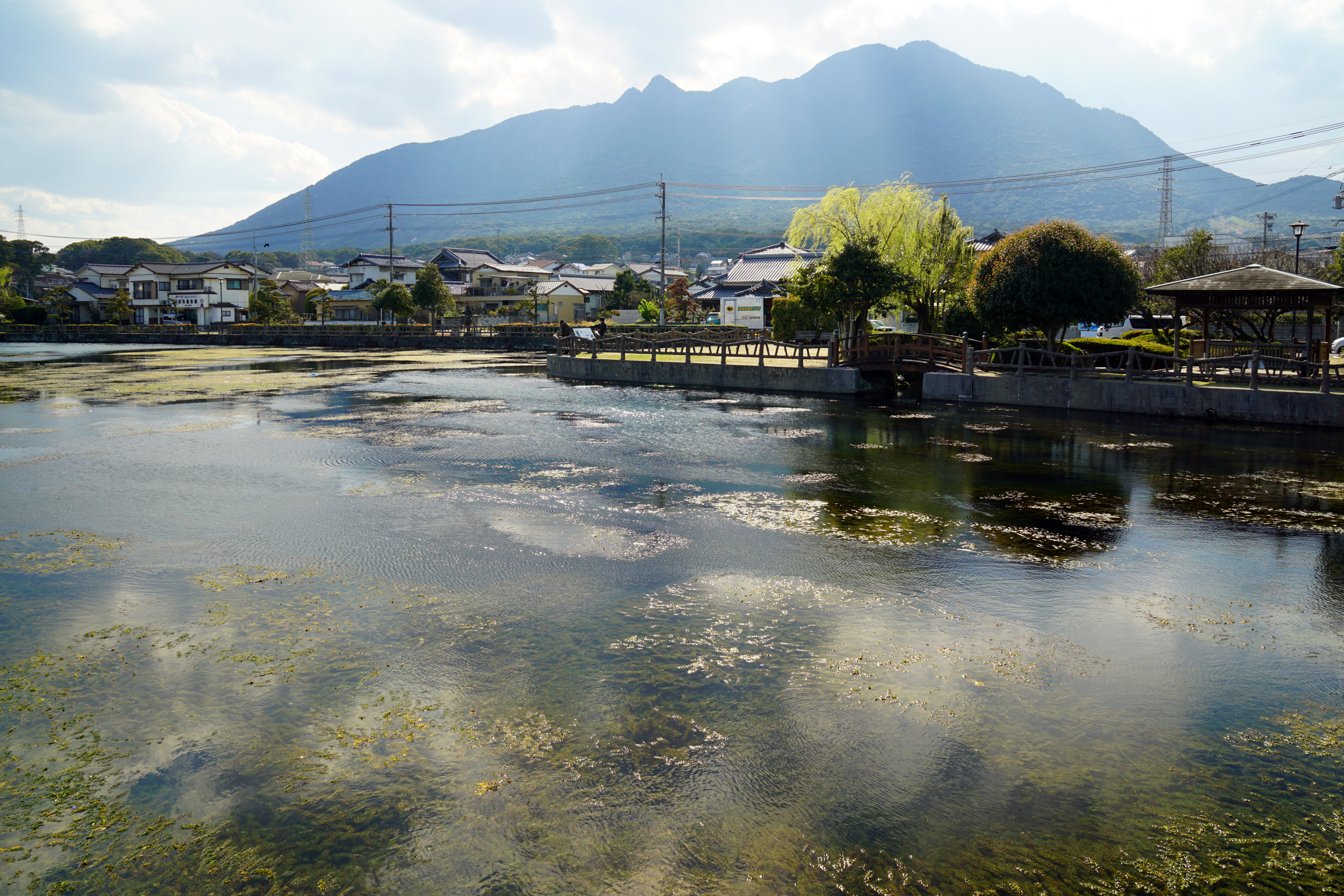 Lake Shirachi and Mount Mayuyama in Shimabara, Nagasaki prefecture, Japan. They are part of "Unzen Volcanic Area Geopark" which joins in Global Geoparks Network.